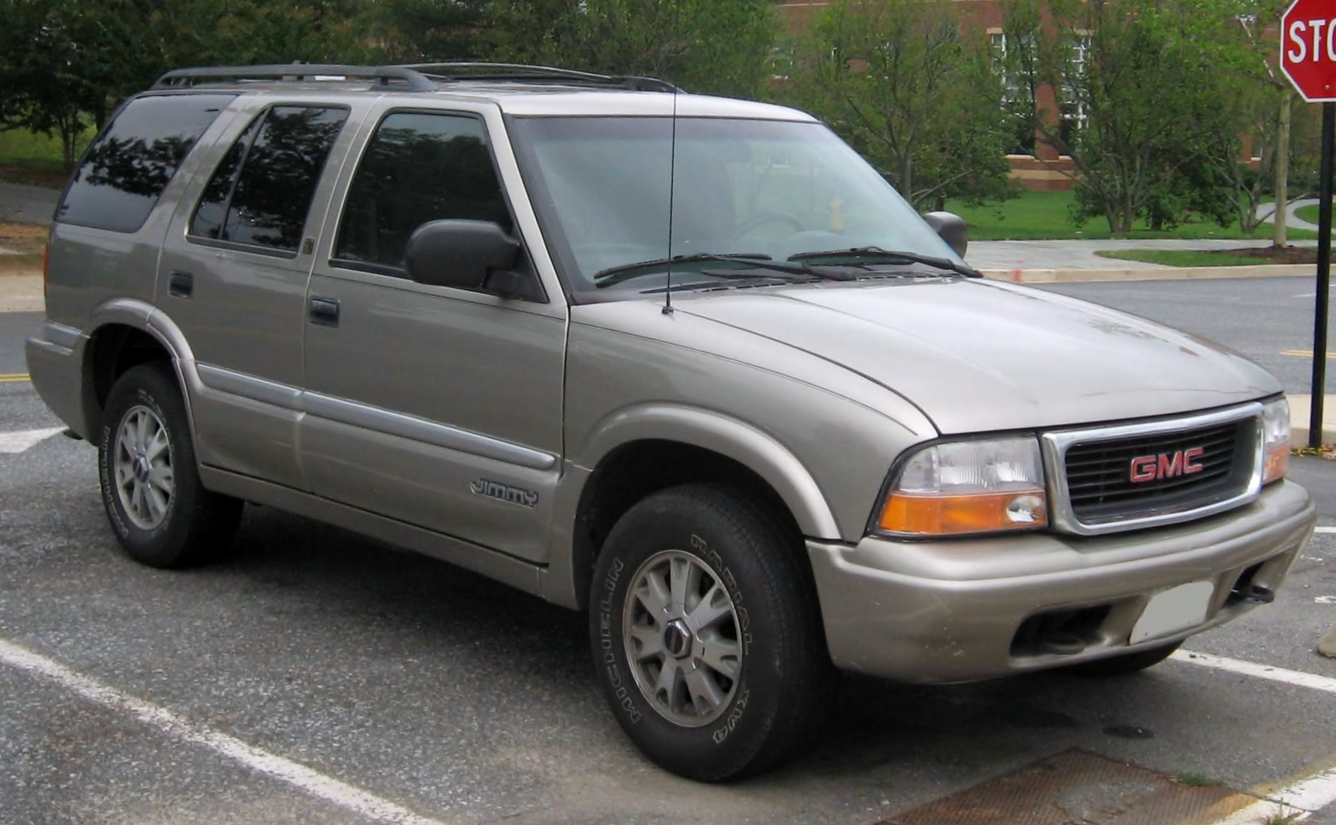 1998-2004 GMC Jimmy photographed in College Park, Maryland, USA.